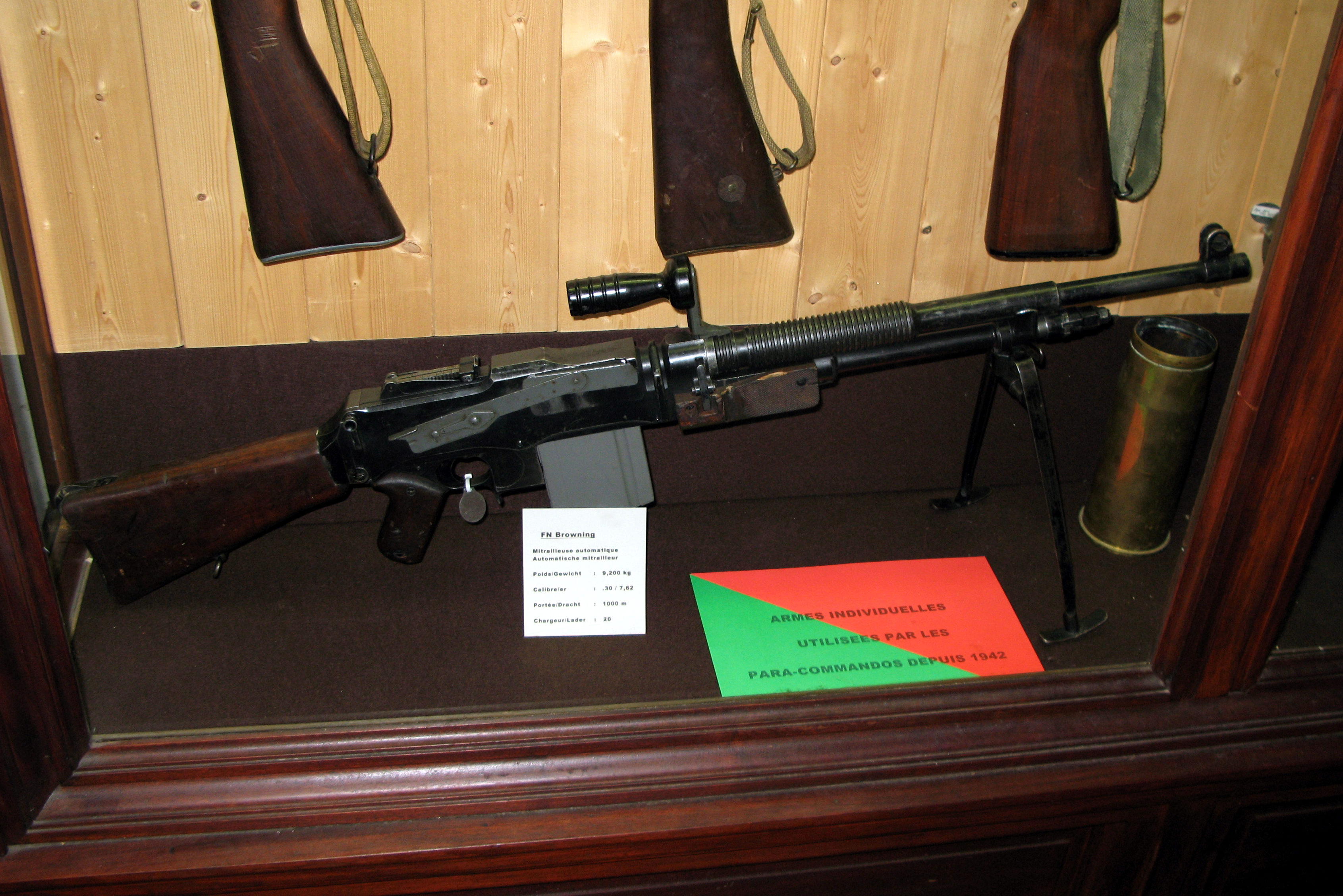 FN Mle D variant of the Browning M1918 featuring a quick-change barrel